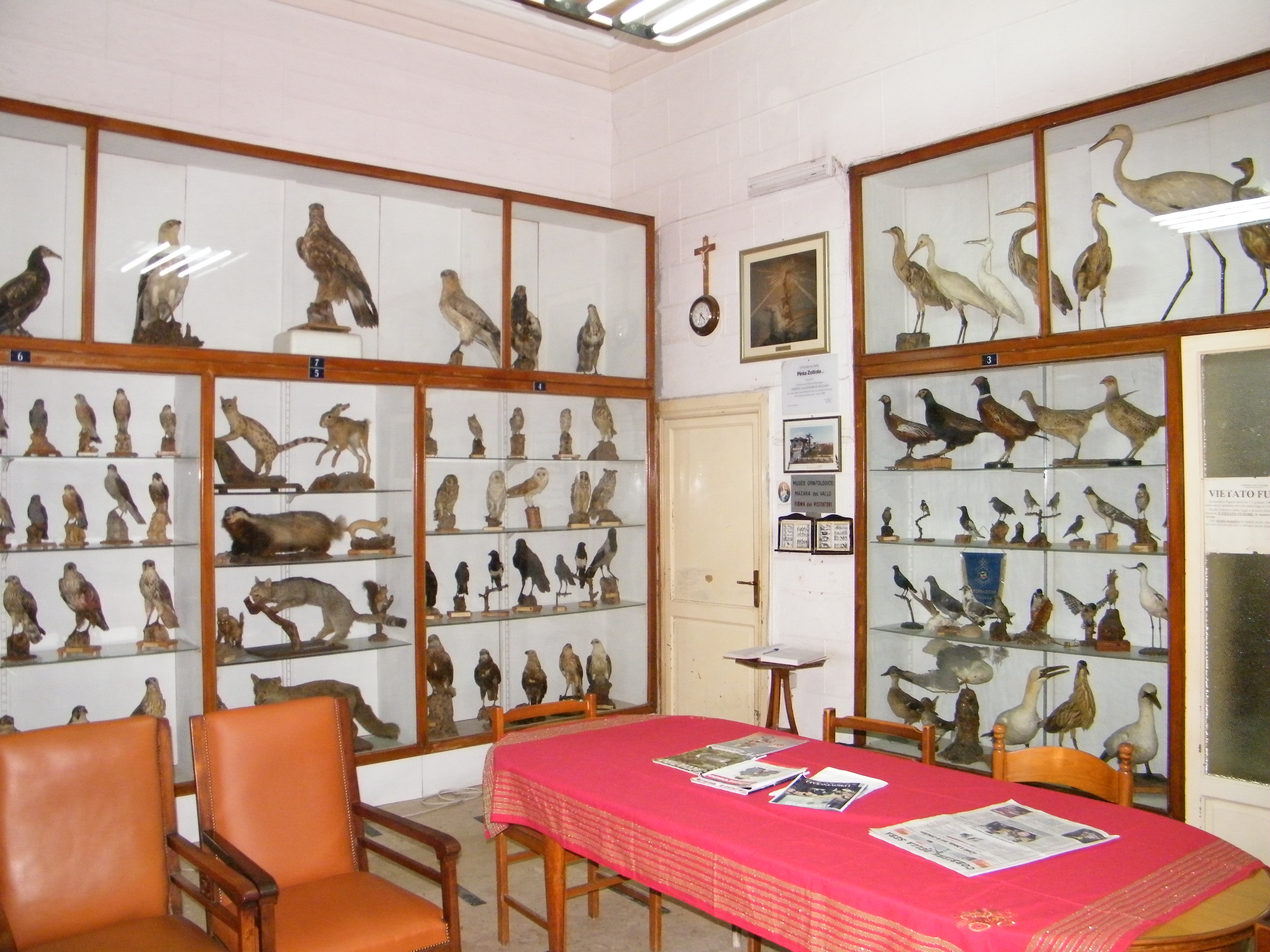 Ornithological museum - interior - Mazara del Vallo